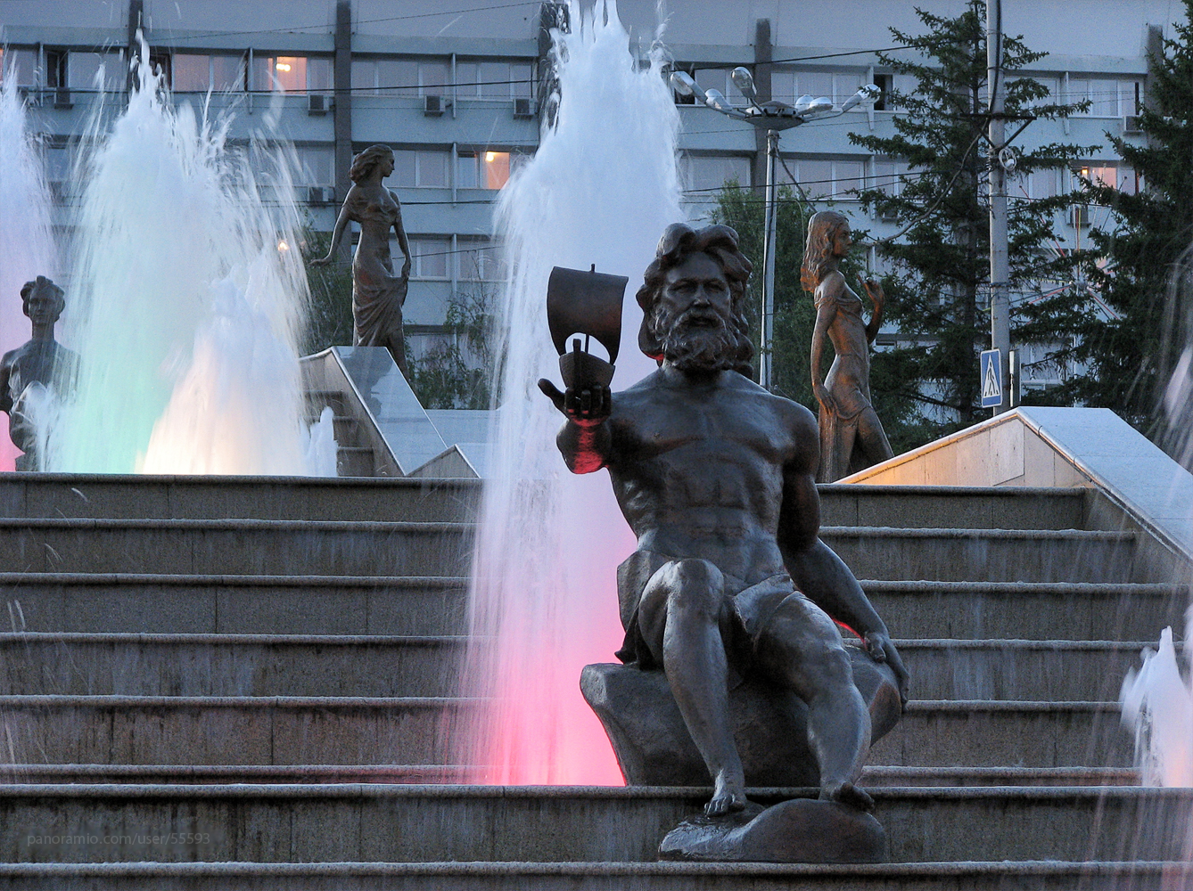 Father Yenisei sculpture in Krasnoyarsk, Russia.